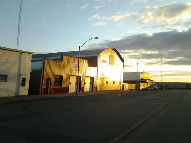 Mainstreet of Lester Iowa at Sunset